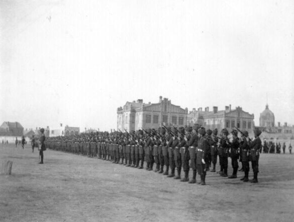 Indian soldiers, Sikhs, with guns. The photo has been taken by an Austrian soldier, active as Marine in Peking during the time of the Boxer Rebellion. Size: 115 x 88 mm ( 4,5” x 3,5 “ ). Thin paper, fine condition. Item ID: col4228